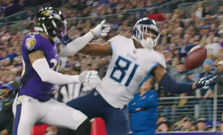 Jonnu Smith (#81) and Brandon Carr (#39) in 2020. Image from video Titans Mic'd Up vs. Ravens (AFC Divisional Round) | Sounds of the Game, ~ 02:20.